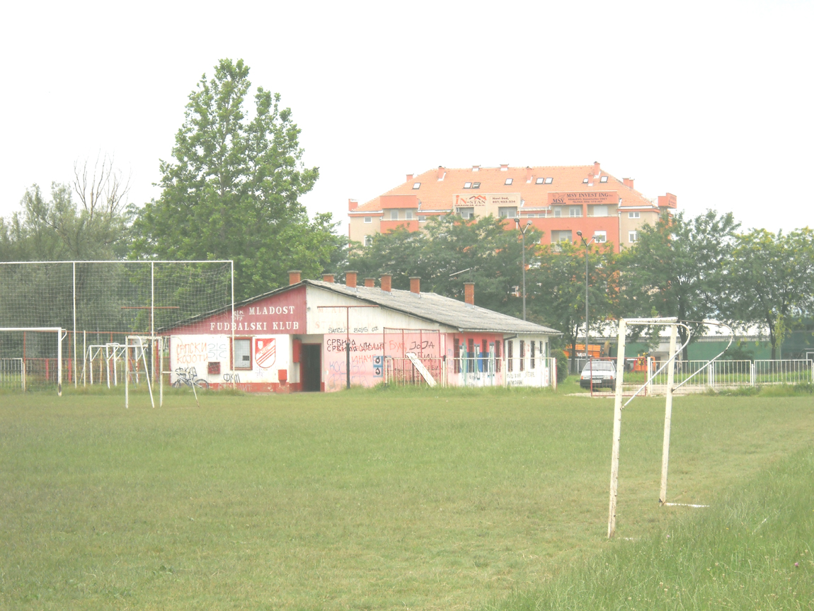 FK Mladost football stadium in Satelit / Novo Naselje neighborhood in Novi Sad.